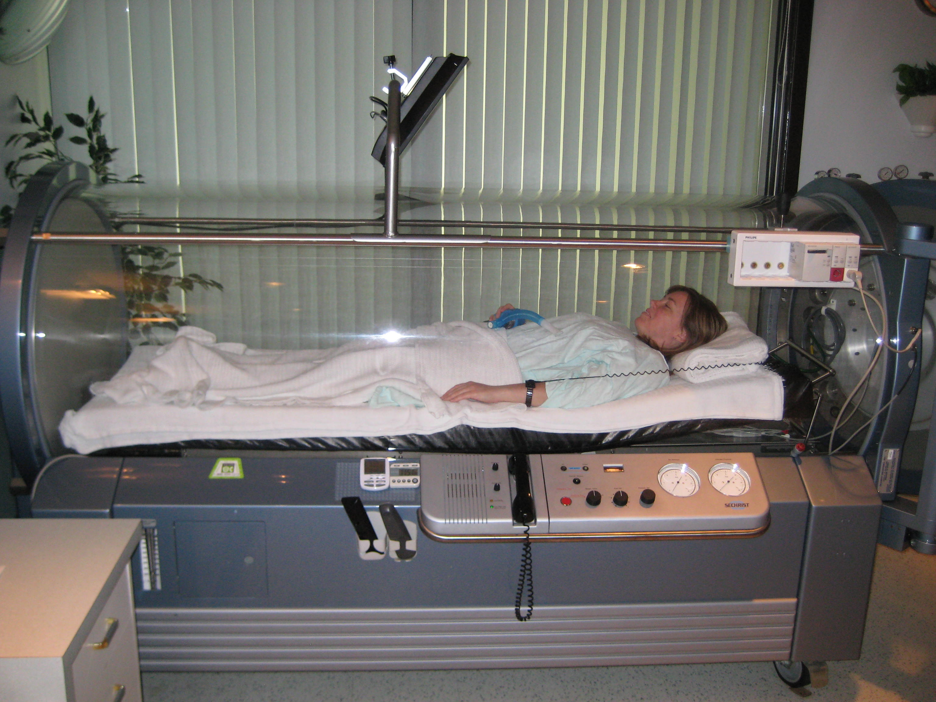 Picture taken by myself of our Sechrist hyperbaric chamber at the Moose Jaw Union Hospital, Saskatchewan, Canada. Permission to photograph the subject for Wikipedia granted. Picture taken July 11, 2008.